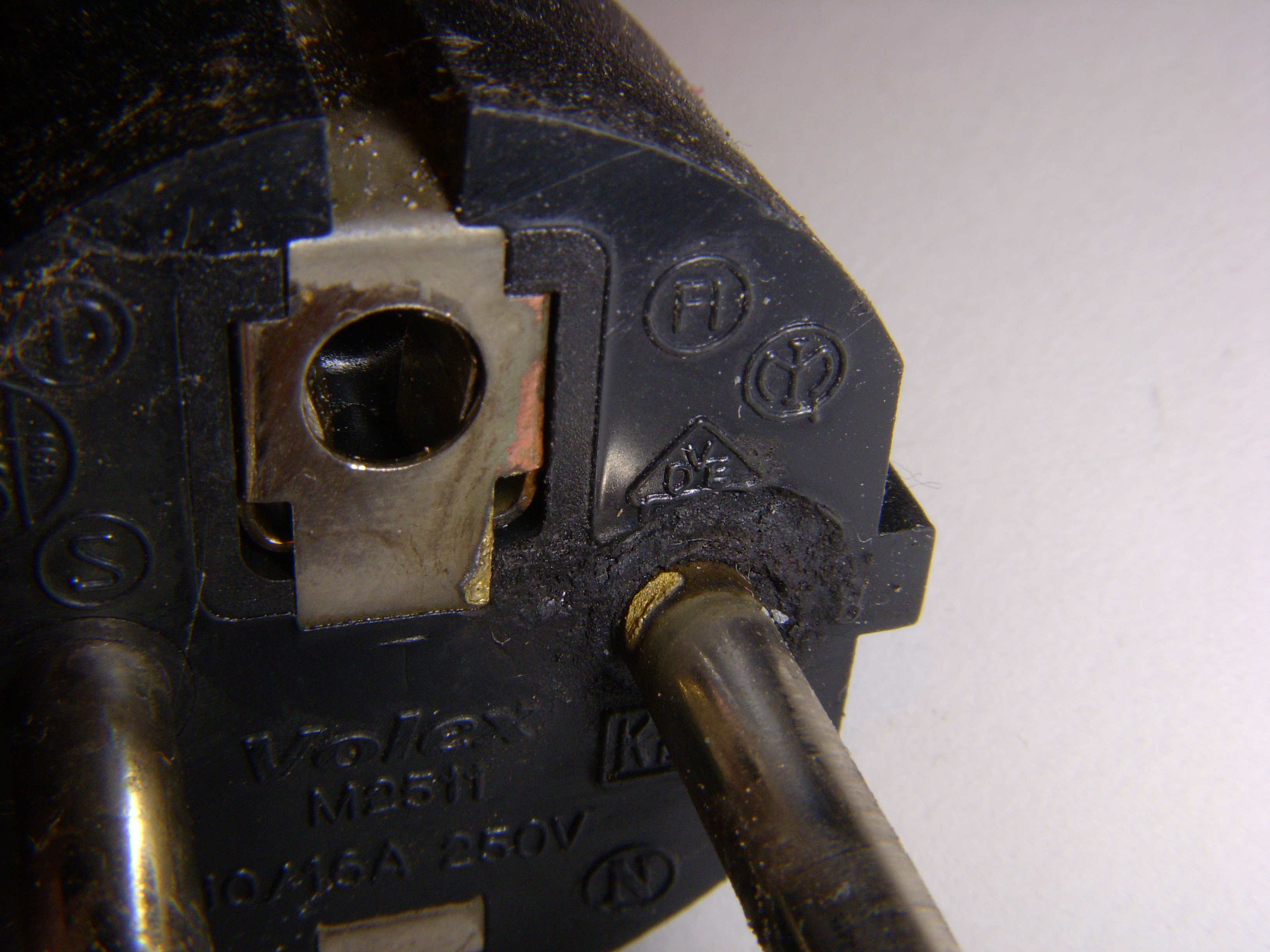 Damage to a CEE 7/7 plug. This one was inserted in a socket when some tea got spilled over it. Resulting arc tripped a 15 amp breaker. Note the erosion of both metal and plastic at the pathway of the electric arc between the hot contact and the protective ground. Damage to the socket itself was negligible.